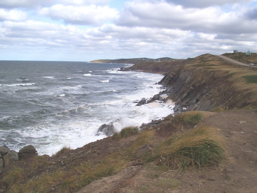 Coast at Cabot Trail, Nova Scotia, Canada